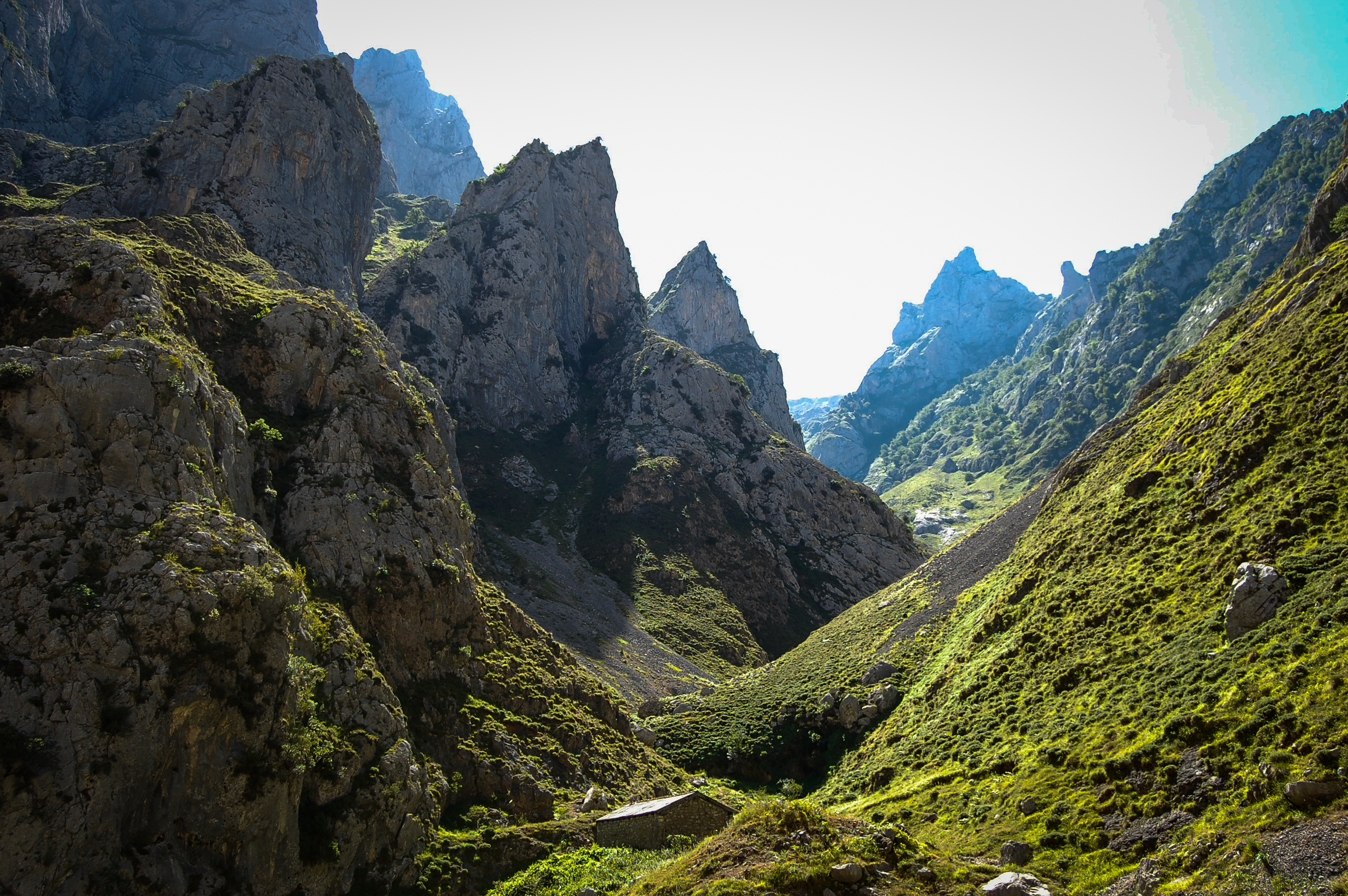 Ruta del Cares, Picos de Europa This is a photography of a Site of Community Importance in Spain with the ID: ES1200035. Natura2000 entry, EEA entry